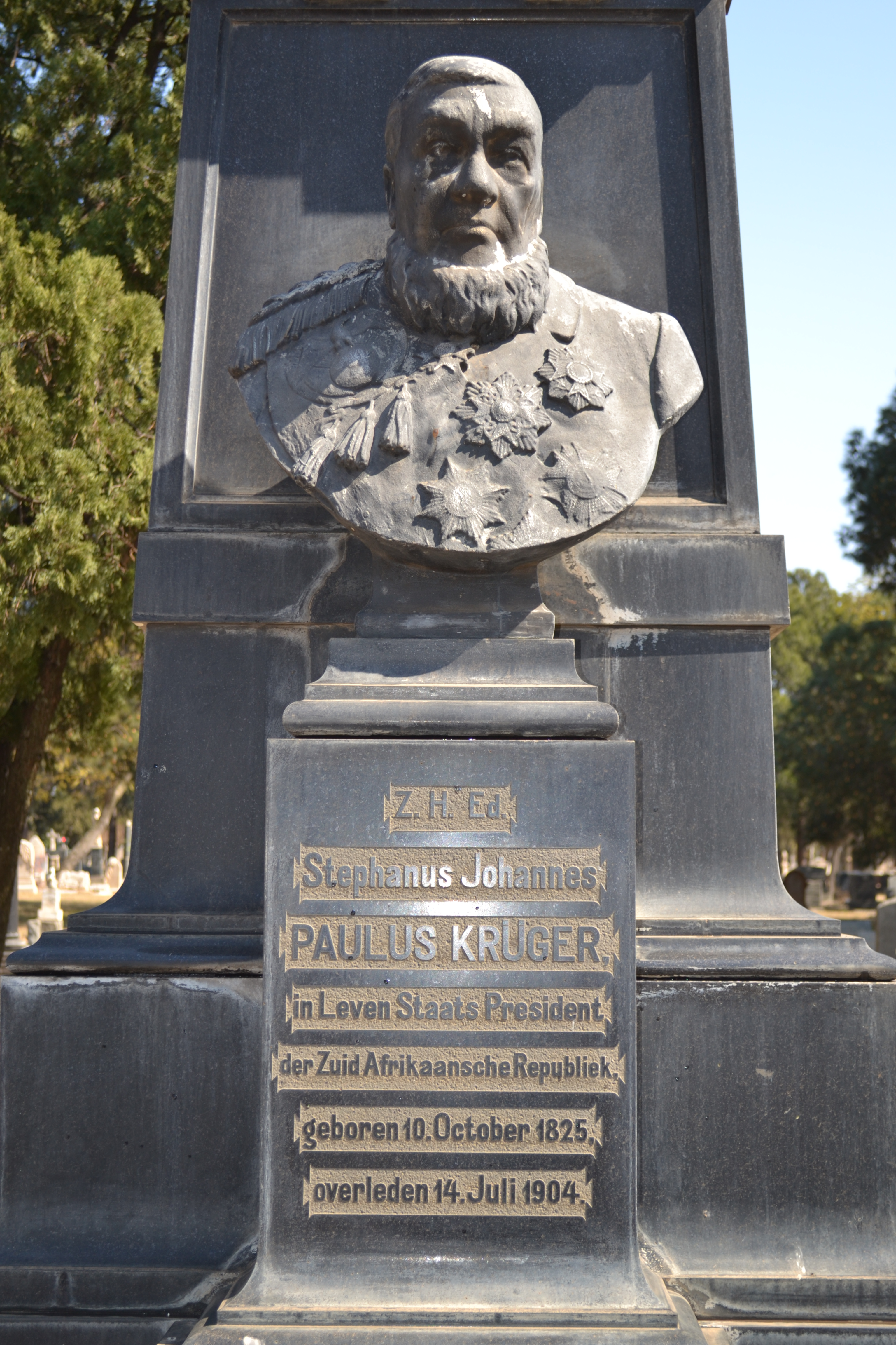 Paul Kruger Church Street Cemetery in Pretoria This media shows a South African Protected Site with SAHRA file reference 000000.